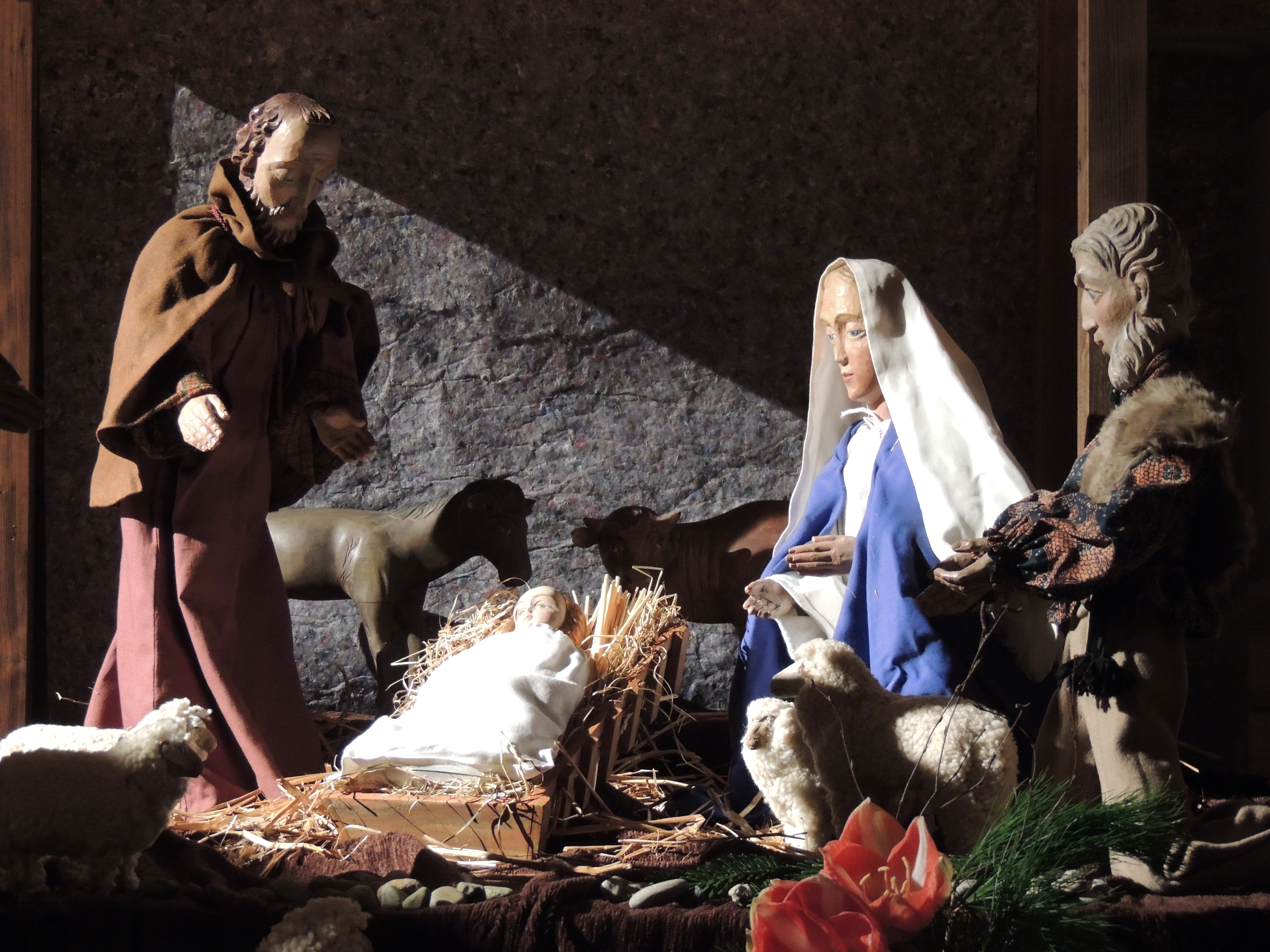 Nativity scene with figures by Arnold Hensler in the Holy Cross Church in Frankfurt am Main-Bornheim